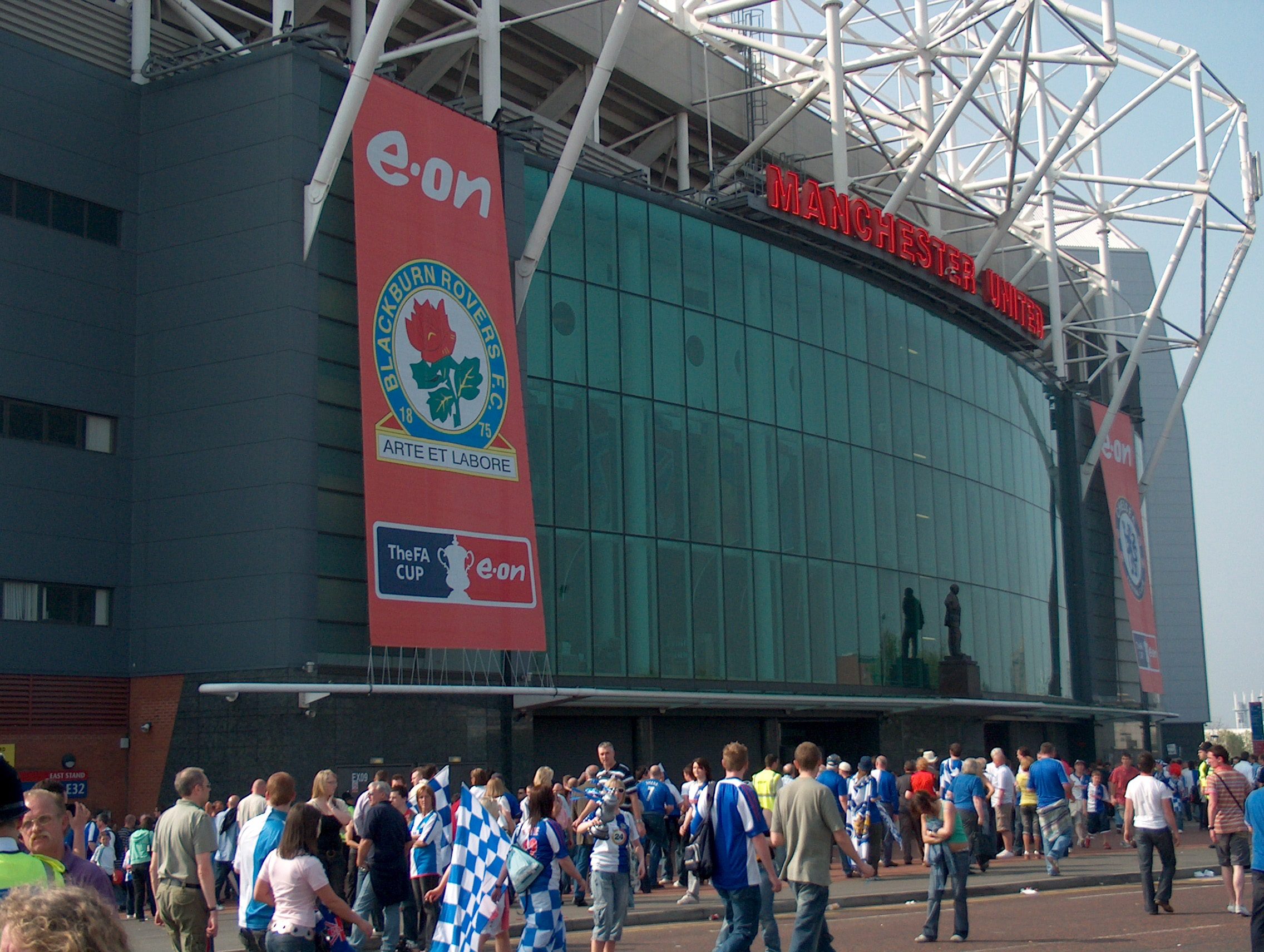 Old Trafford football ground The Sir Matt Busby Way end. The stadium is used for prestigious matches apart from Manchester United's home games. Today it is being used for an FA Cup semi-final.